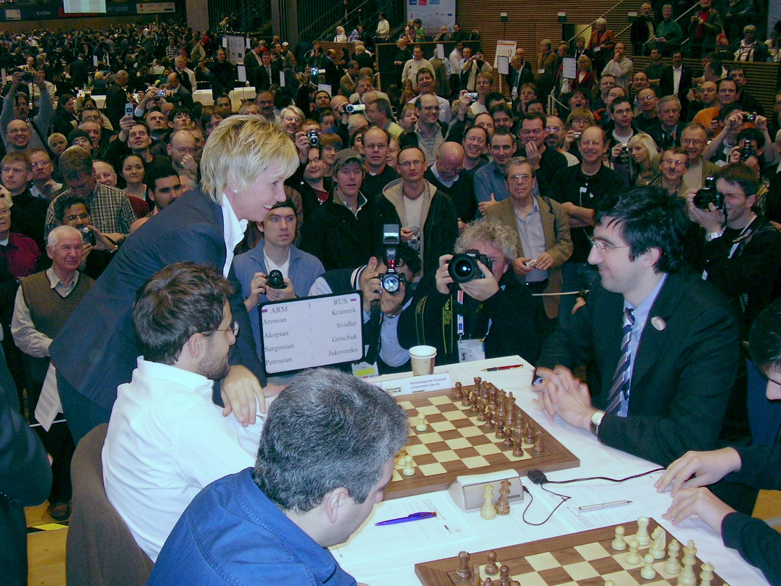 Chief burgomaster Helma Orosz cheers Vladimir Kramnik (black against Levon Aronian), Chess Olympiad 2008, Photographer Gerhard Hund.